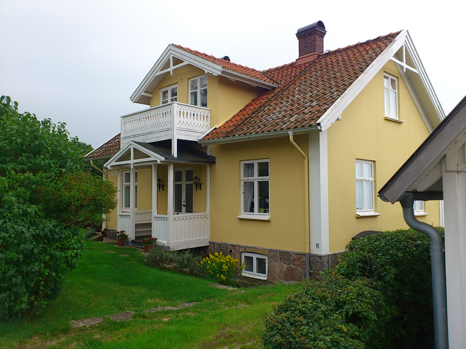 Villa Godthem, the house in Mölle where the author Selma Lagerlöf stayed in 1906.